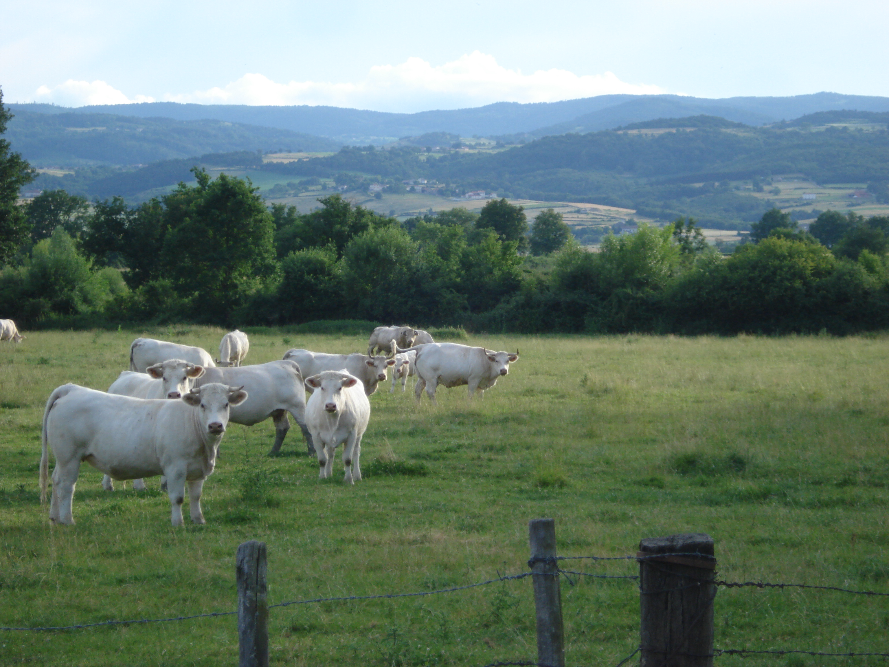 Landscape with cows at Chalain-d'Uzore (Loire, Fr)